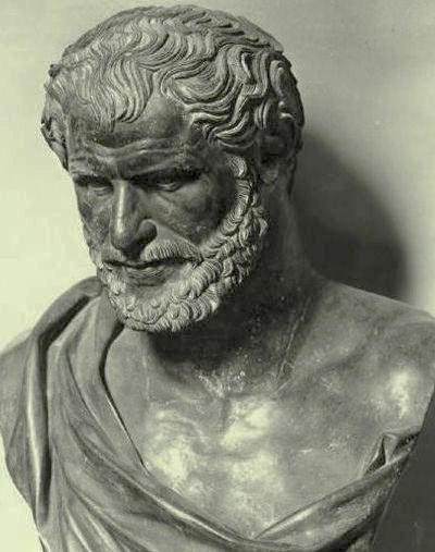 Bronze bust of an unknown man, perhaps a philosopher, discovered in the Villa of the Papyri in Herculaneum. Now in the Naples National Archaeological Museum. Inventory number: 5602. Concerning this sculpture, the Naples Museum says [1]: "The identification of the piece with Democritus, already advanced in the eighteenth century was revived with new vigor in recent times, such identification would agree well with the adherence of the villa owner and patron of the "gallery" of sculptures - Epicurean philosophy descended from the doctrine of Democritus. ... It should, however, be noted that over the years, scholars have seen in the bronze very different characters from Solon and Aristotle to Philopoemen. See also a similar bronze bust of Heraclitus at . "